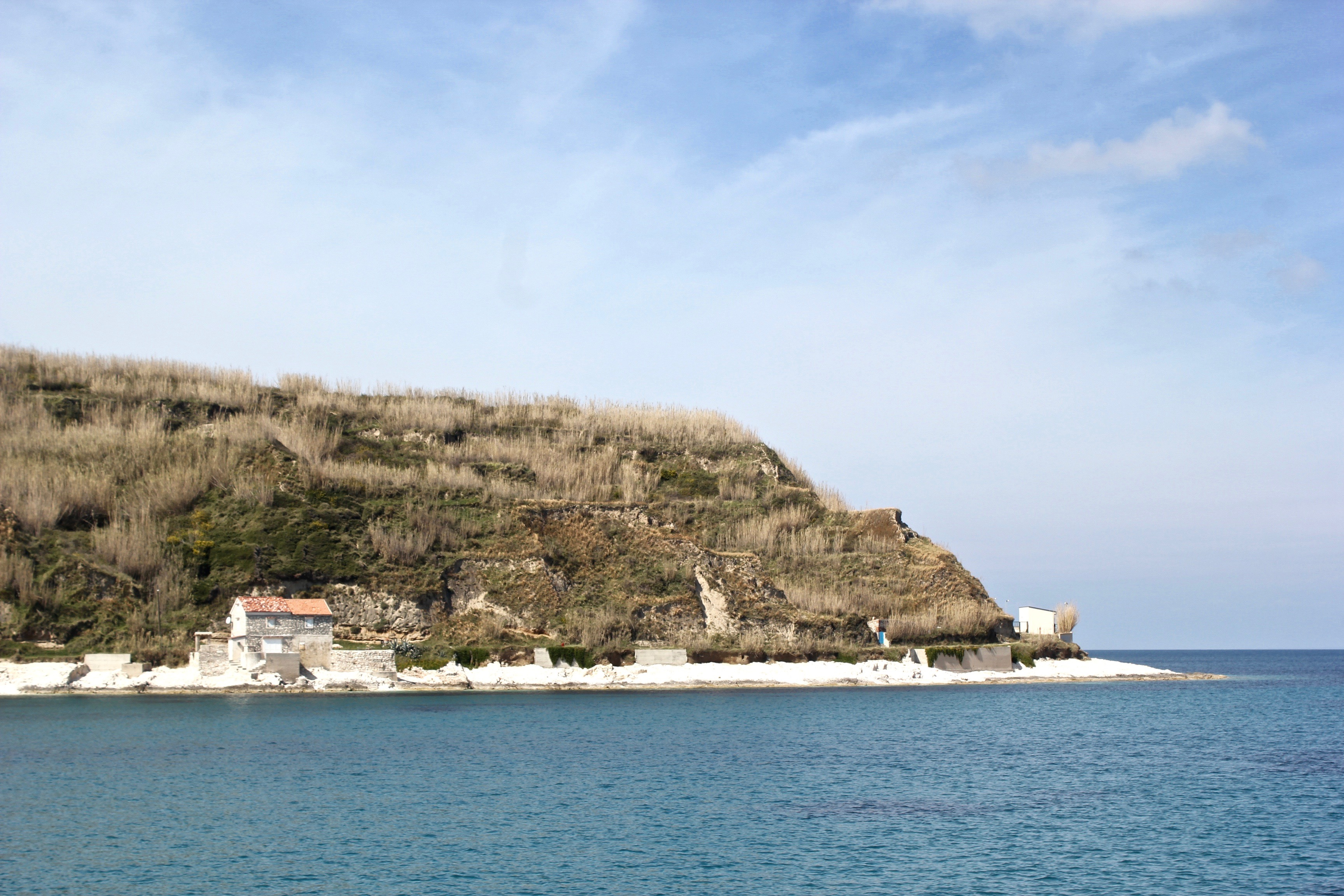 An old stone house on the margins of the town